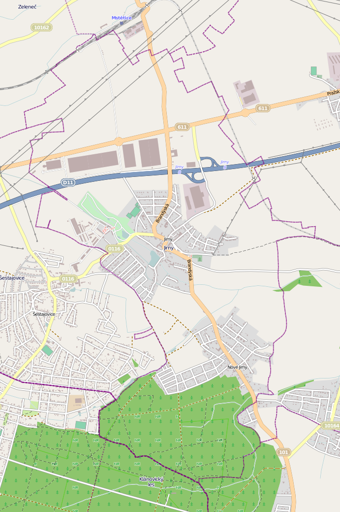 Jirny, Praha-východ district, Central Bohemia, The Czech Republic. Cadastral district map 1:30 000. This map of Jirny, Czech Republic was created from OpenStreetMap project data, collected by the community. This map may be incomplete, and may contain errors. Don't rely solely on it for navigation.